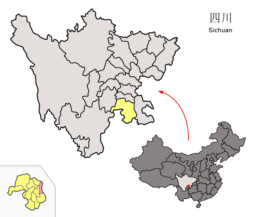 Location of Jiang'an County (pink) and Yibin Prefecture (yellow) within Sichuan province of China Map drawn in october 2007 using various sources, mainly : Sichuan province administrative regions GIS data: 1:1M, County level, 1990 Sichuan Counties map from